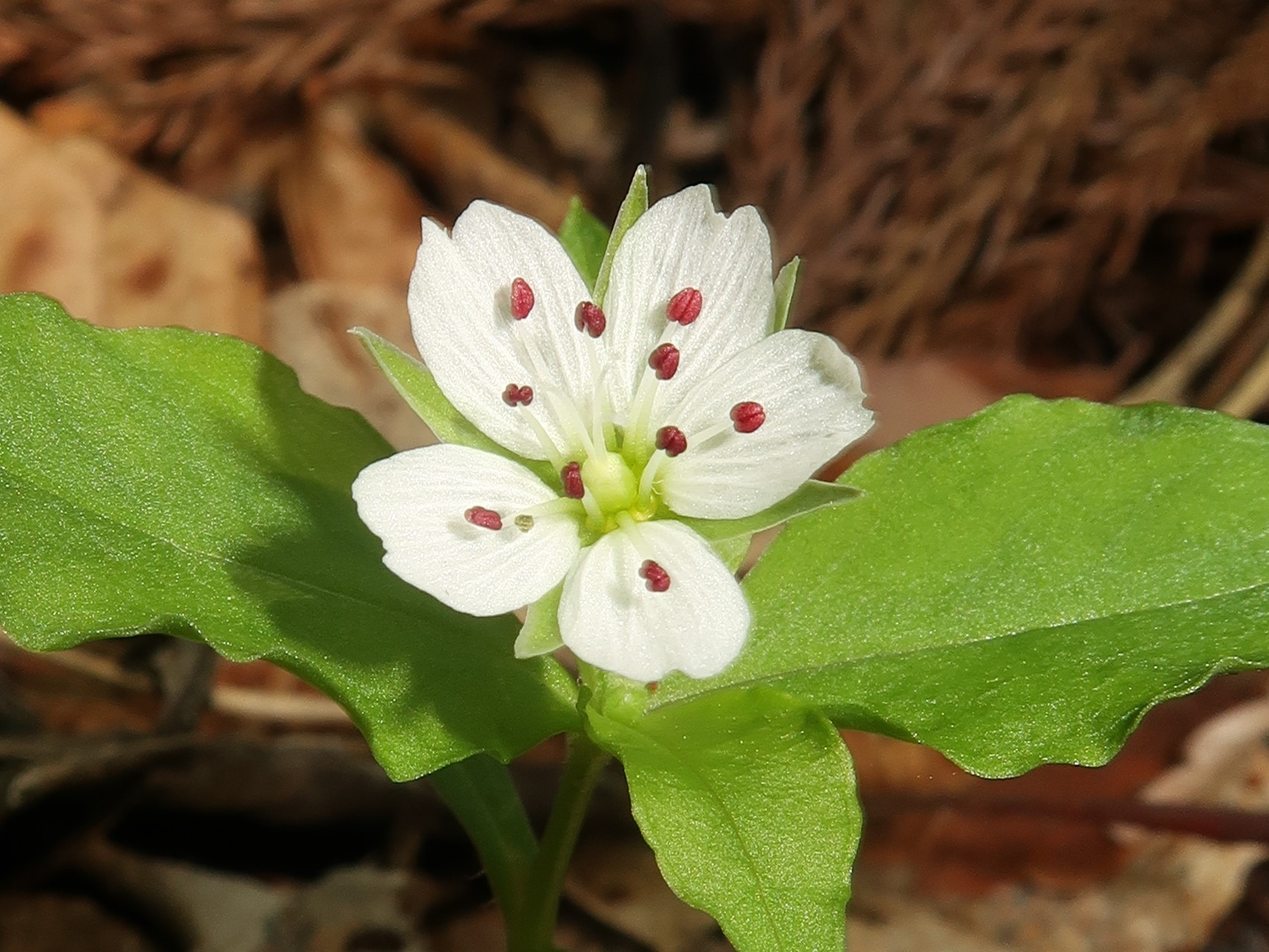 Pseudostellaria heterophylla, Naka-dori area, Fukushima pref., Japan